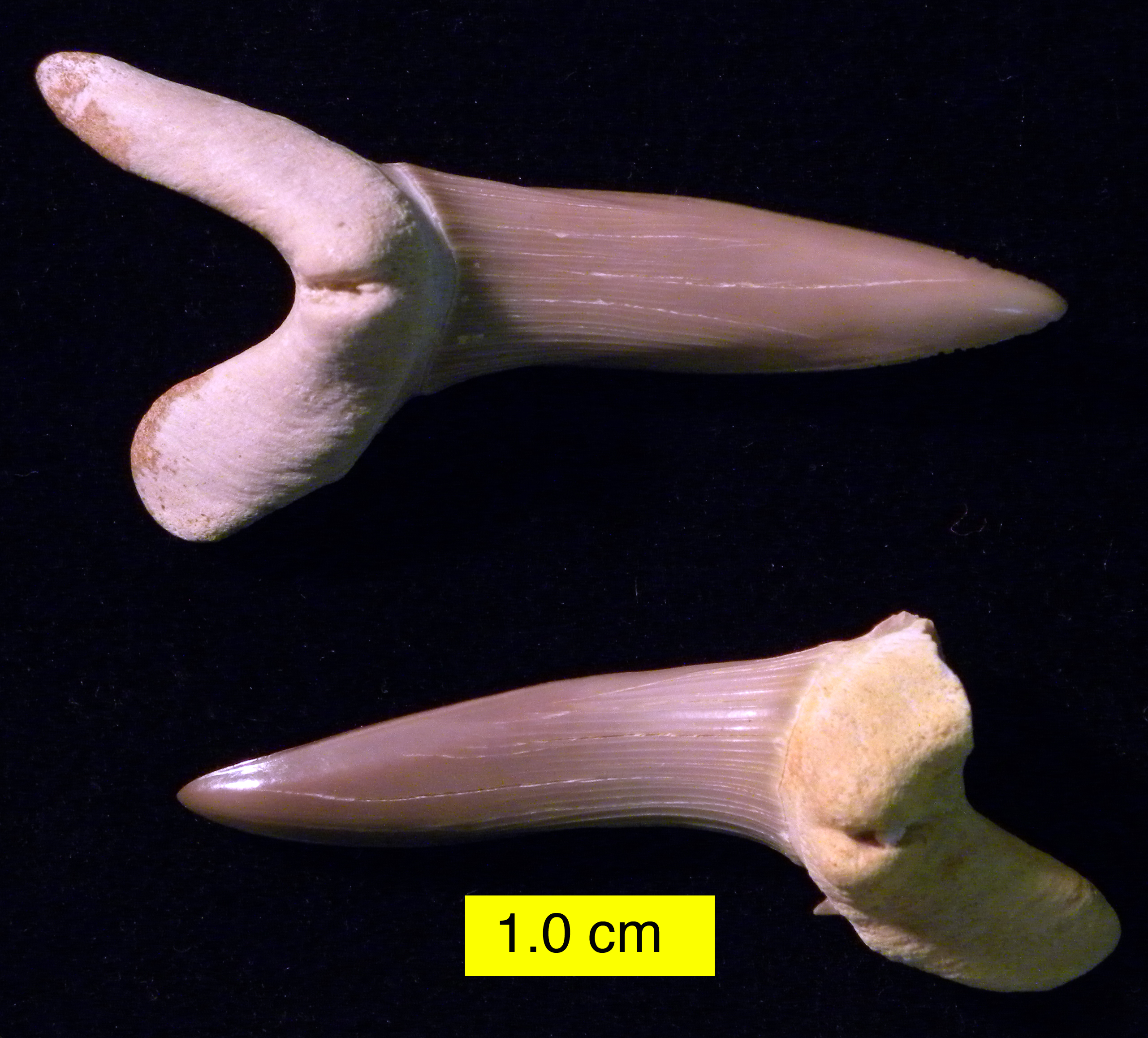 Scapanorhynchus texanus teeth, Menuha Formation (Upper Cretaceous), Makhtesh Ramon, Israel. Collected by Andrew Retzler.